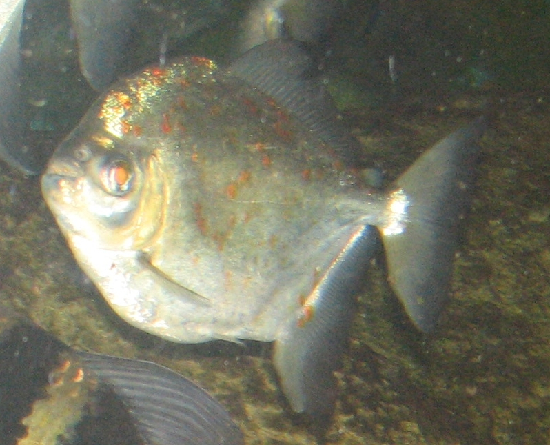 Myleus rubripinnis at Louisville Zoo